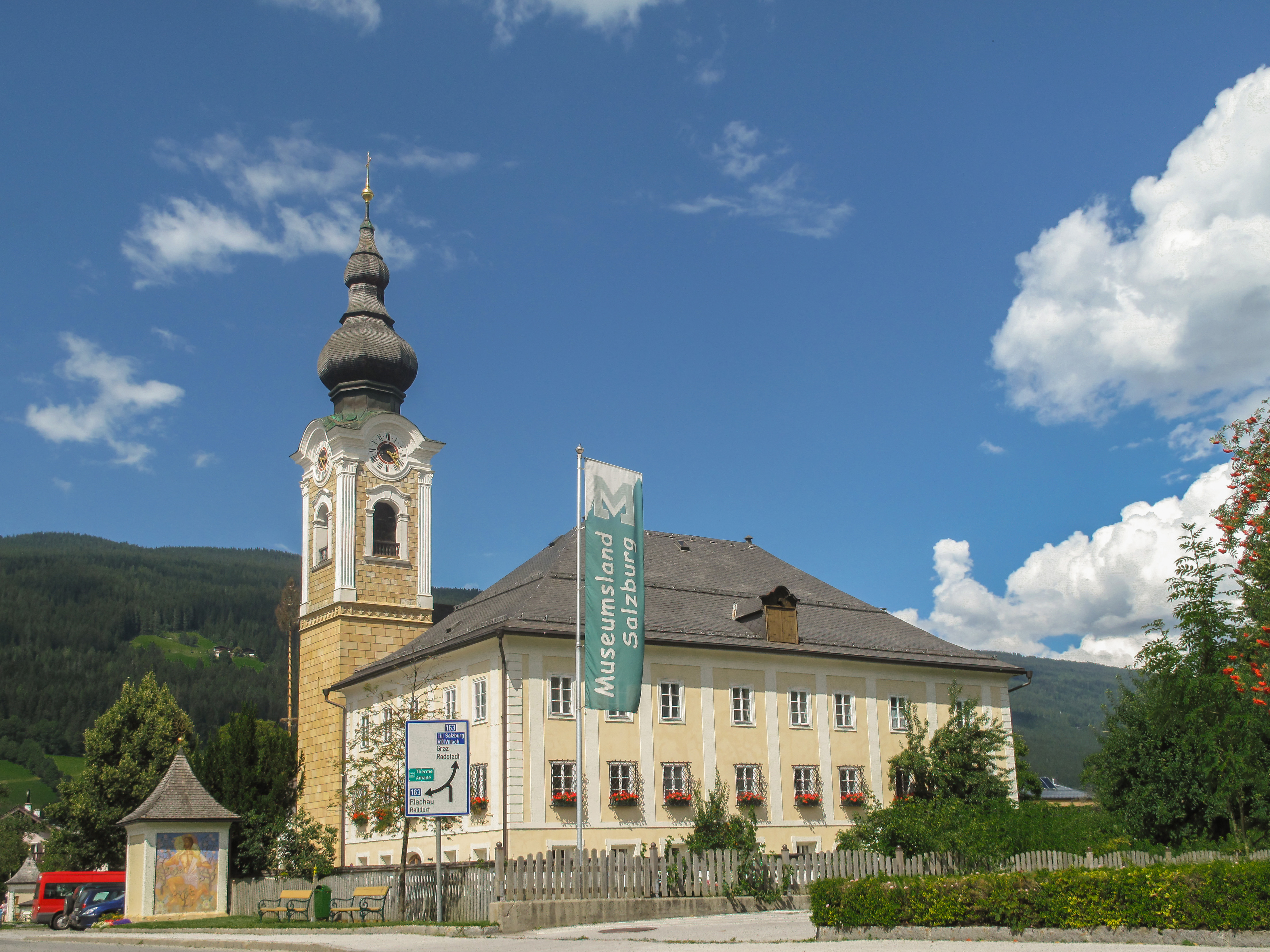 Altenmarkt im Pongau, church